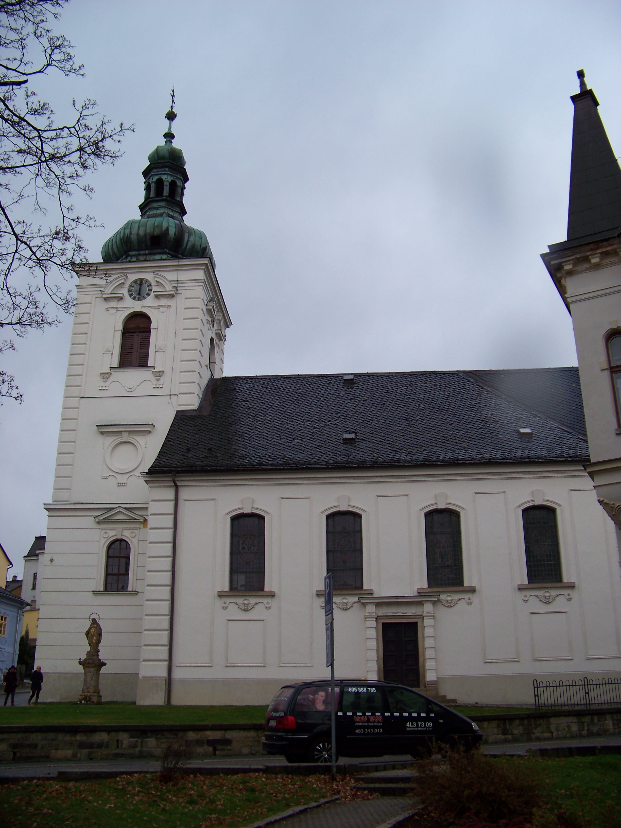 Jablonec nad Nisou, Jablonec nad Nisou District, Liberec Region, Czech Republic. Church of Saint Anne.